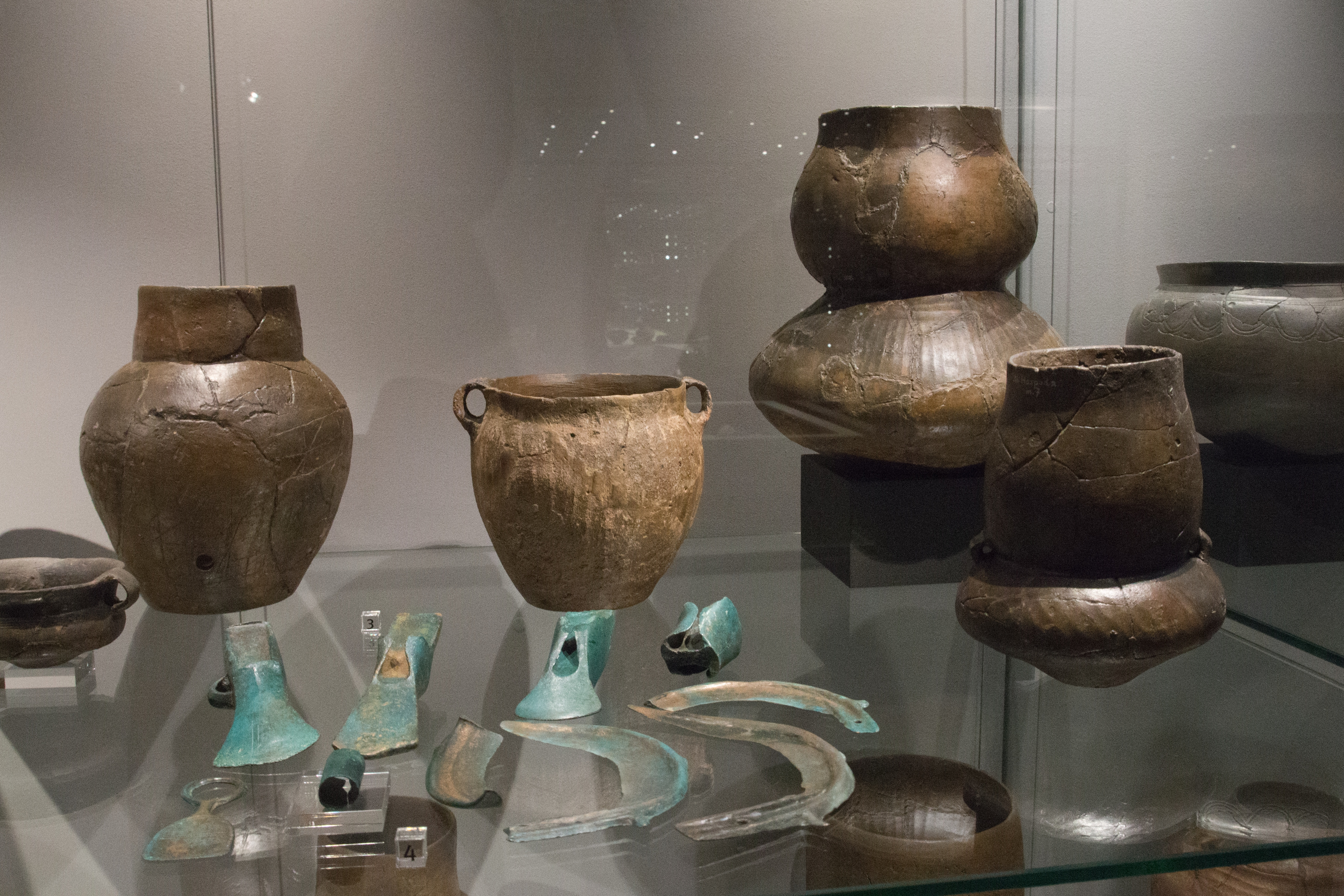 Pottery of the Milavce culture group, 1250-950 BC. (4) Depot of bronze objects (axes, razor, sleeve and sickles) from the Malinec forest near Robčice (Plzeň-North District). Museum of Western Bohemia in Pilsen